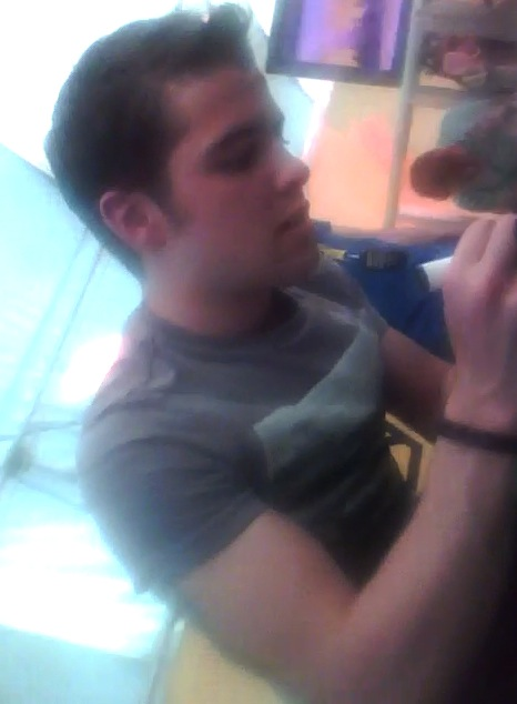 Joe McElderry signing autographs in Bangor at Radio 1's Big Weekend